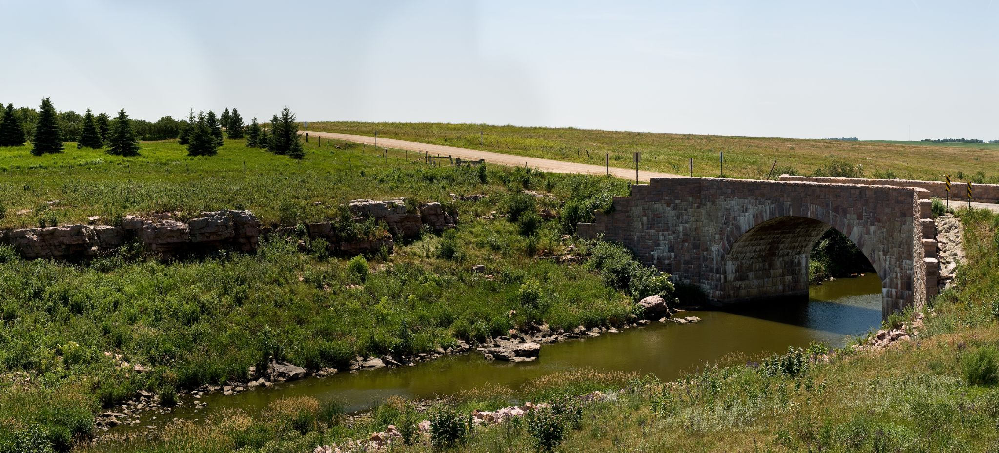 In the 1930s the Works Progress Administration (WPA) was one of the groups designed to spur the economy and create jobs. The WPA focused mainly on the arts but also did several road-side projects. One of these was this bridge, built in 1938 out of Sioux Quartzite from the surrounding area (and not just a stone veneer either). It has survived unaltered to this day. more info